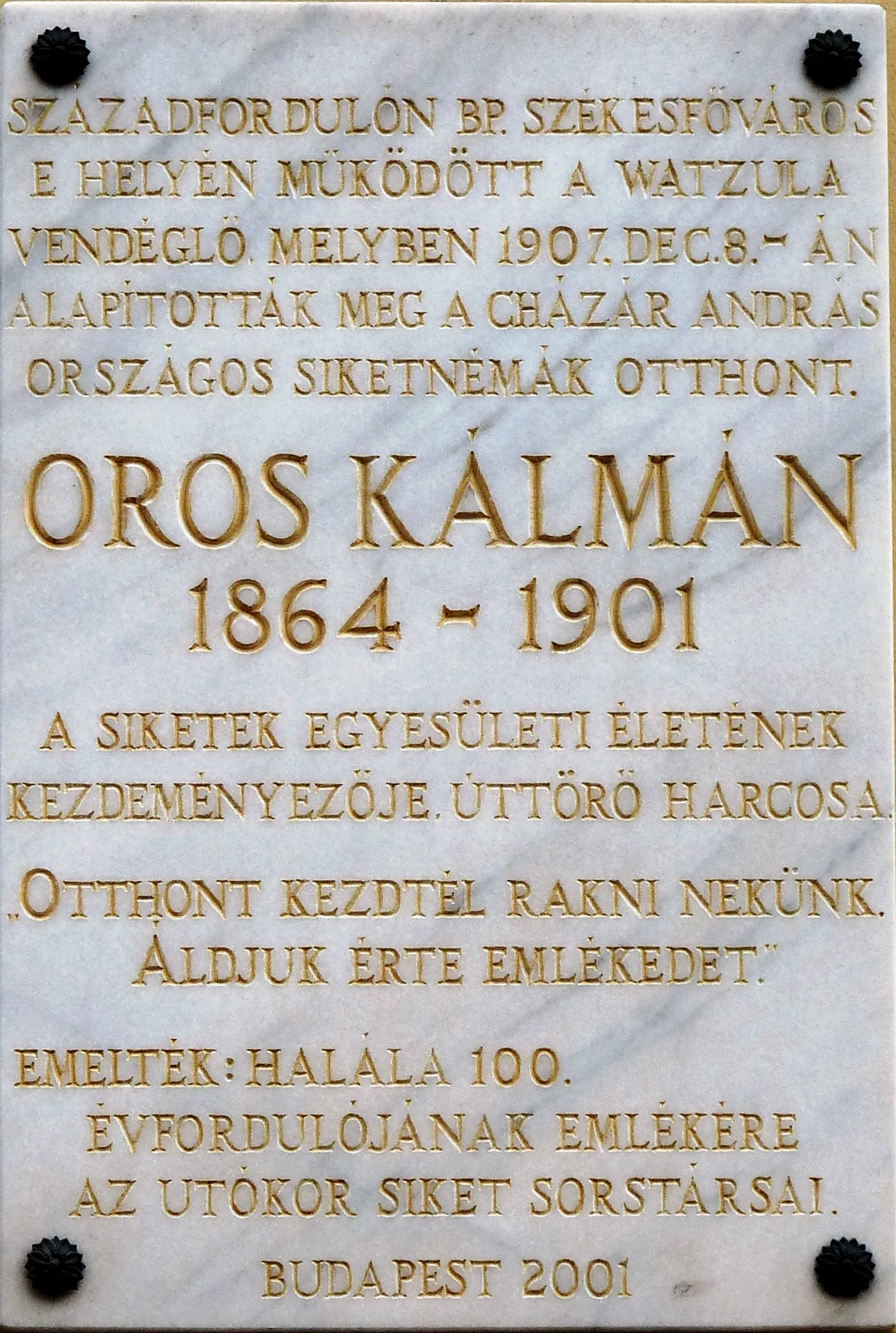 Kálmán Oros and the SINOSZ commemorative plaque in Budapest District VIII, Baross Street No 71.